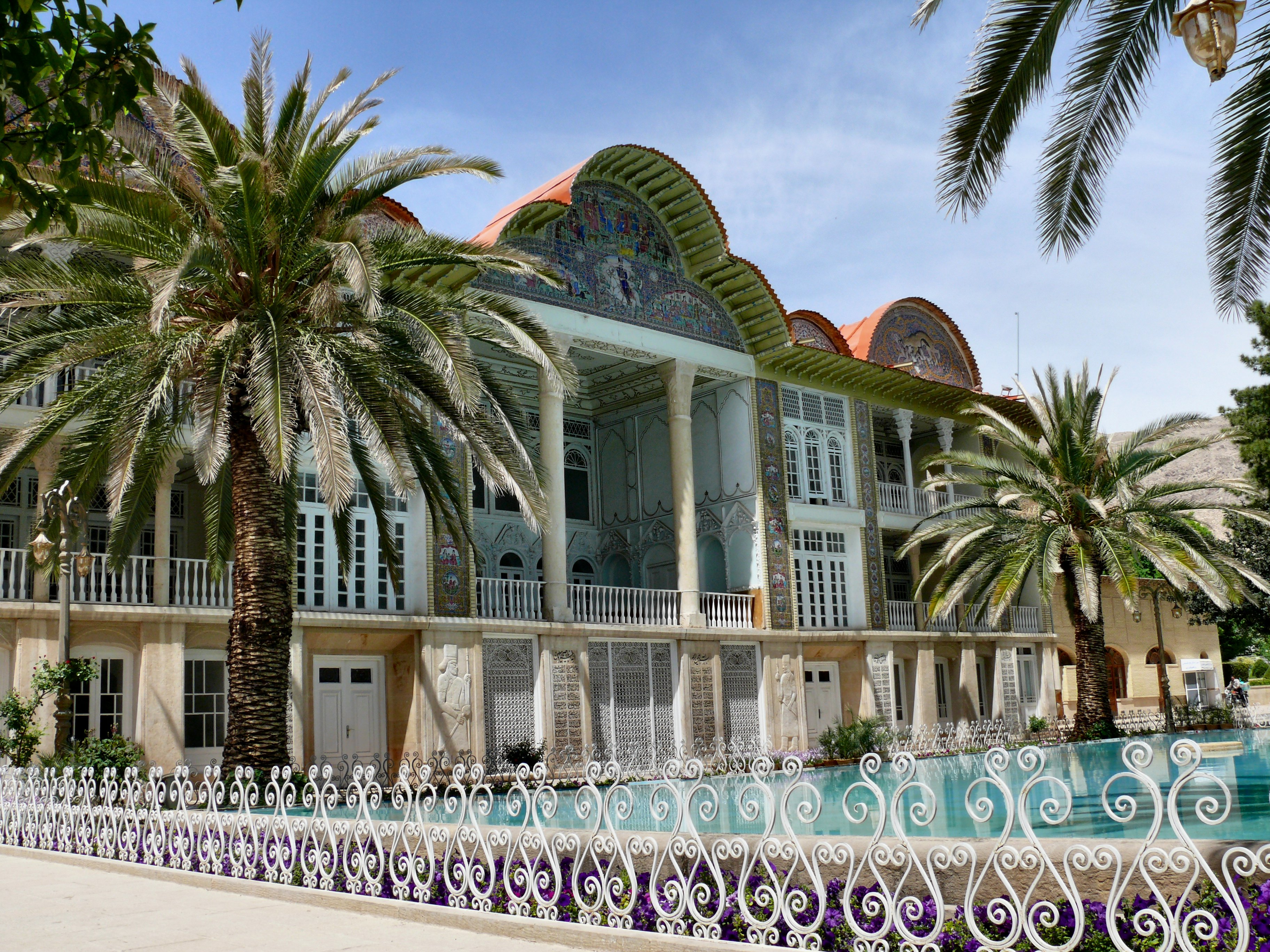 Ghavam—Qavam Garden (house) and Eram Garden, Shiraz, Iran.